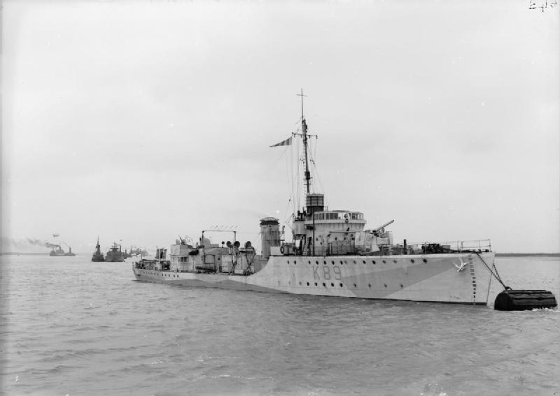 Photograph of British sloop HMS Guillemot.